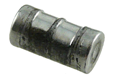 Pin of a bicycle chain after about 4000 km in use. Length: 7mm; diameter: 3.7mm. Abrasive effects by inner plate deduced diameter to about 3.5 mm.